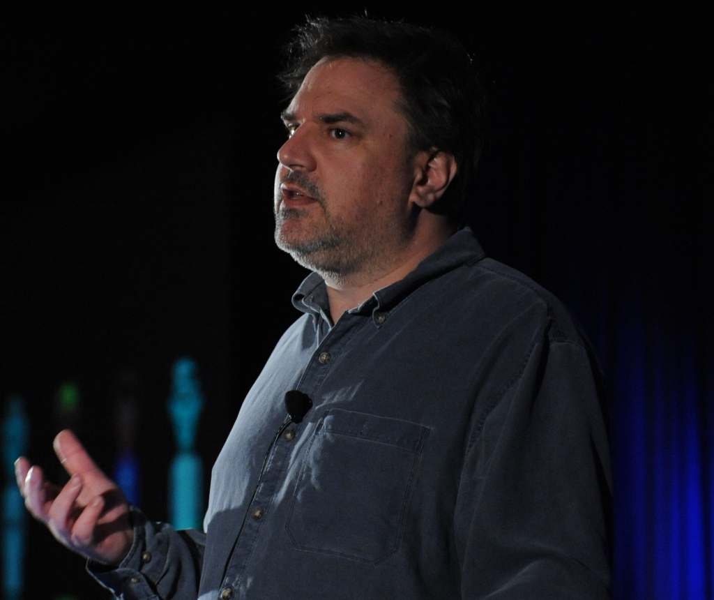 Ron Gilbert delivering a speech at GDC 2011.